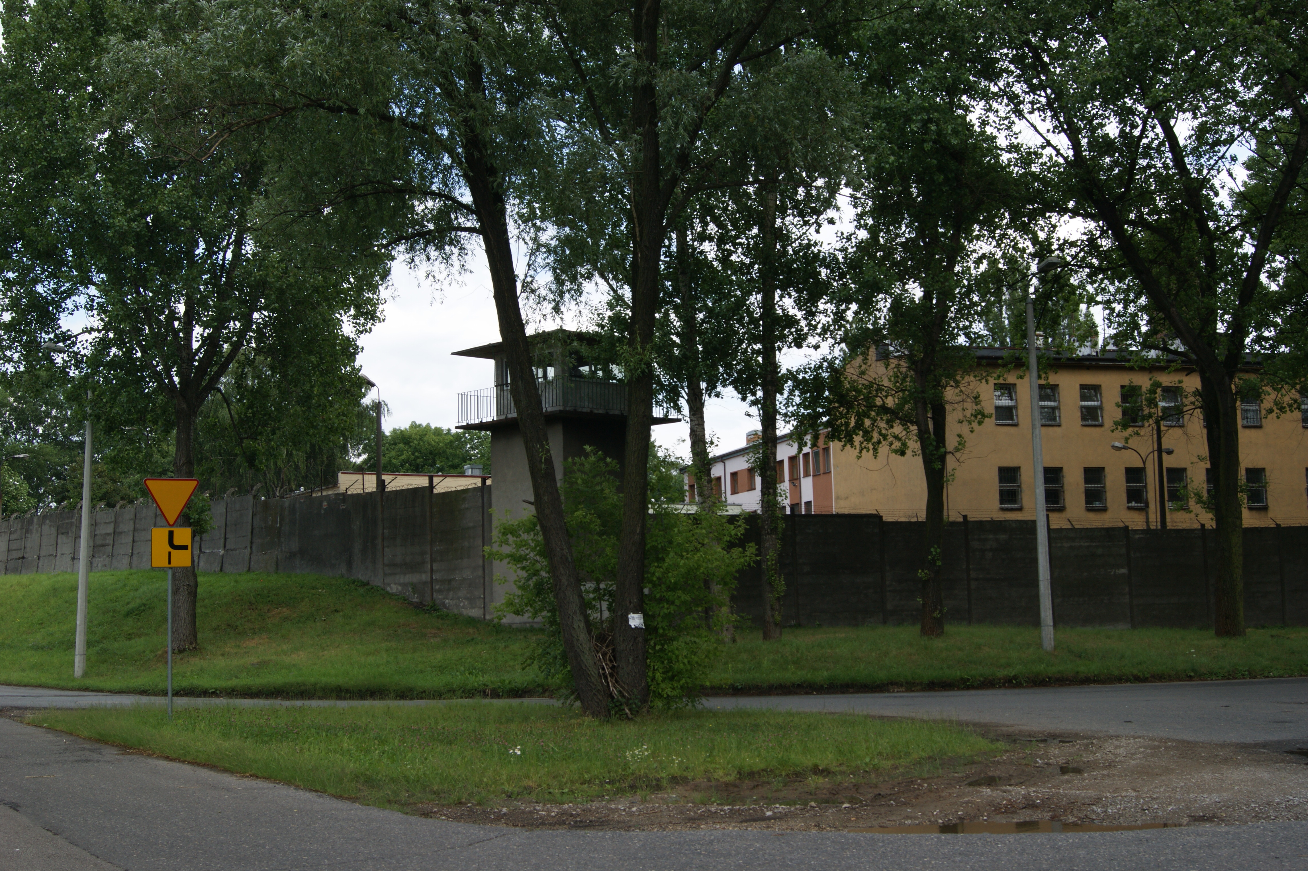 Prison Krakow-Nowa Huta, 2 Splawy street, Ruszcza, Nowa Huta, Krakow, Poland